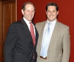 Governor of New York Eliot Spitzer and Assemblyman Greg Ball taken April 8 en:2007 at the New York State Assembly building